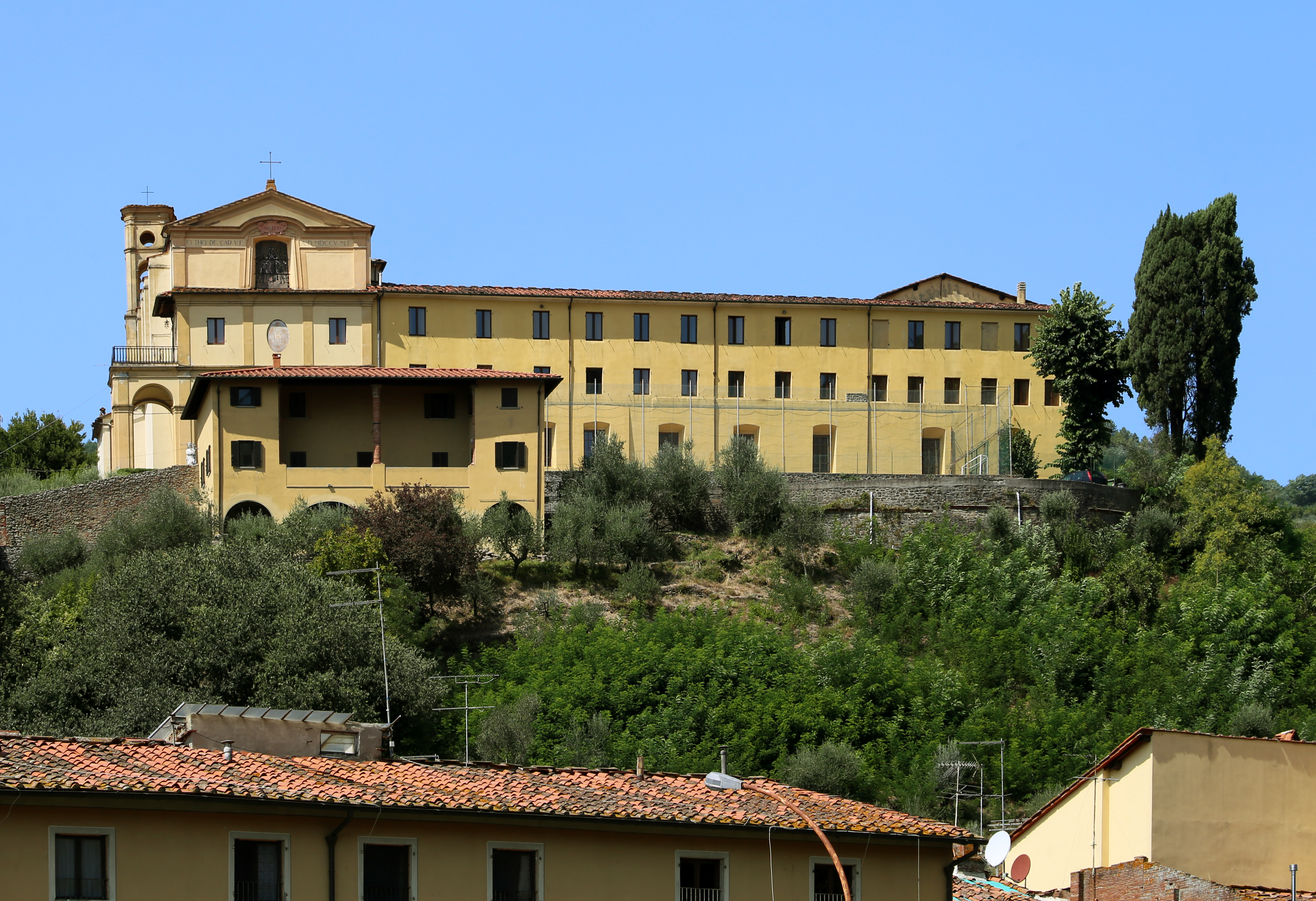 Casa di Nazareth